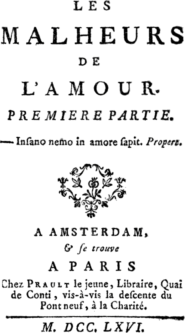 Front page of Les Malheurs de l'Amour (1746), a novel by Claudine Guérin de Tencin